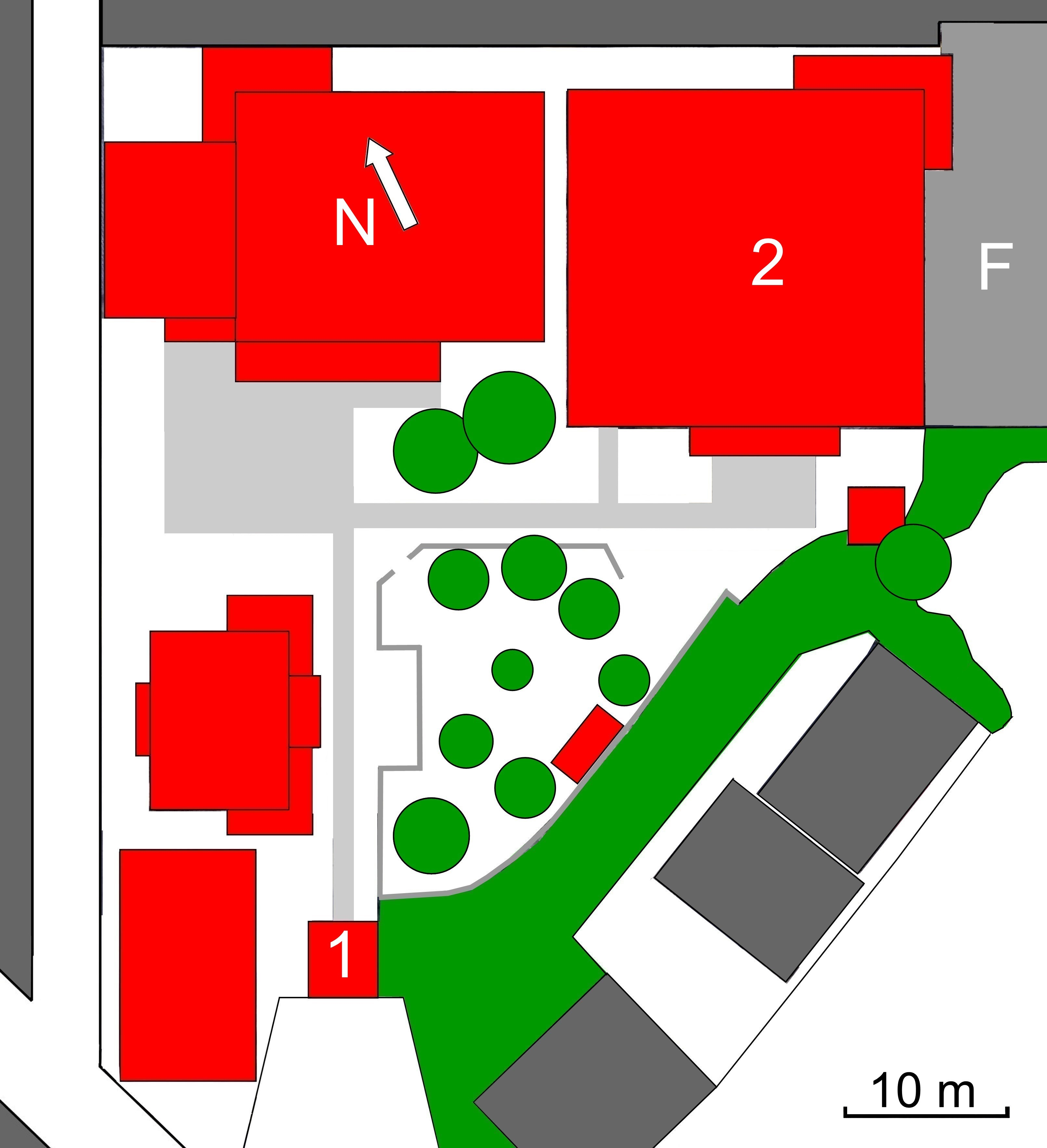 Layout of Tōkō-in temple at Toyonaka Osaka prefecture, Japan